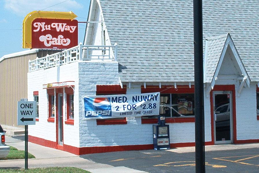 Photograph of the original NuWay (Nu Way Cafe) located on Douglas Avenue in Wichita, Kansas.